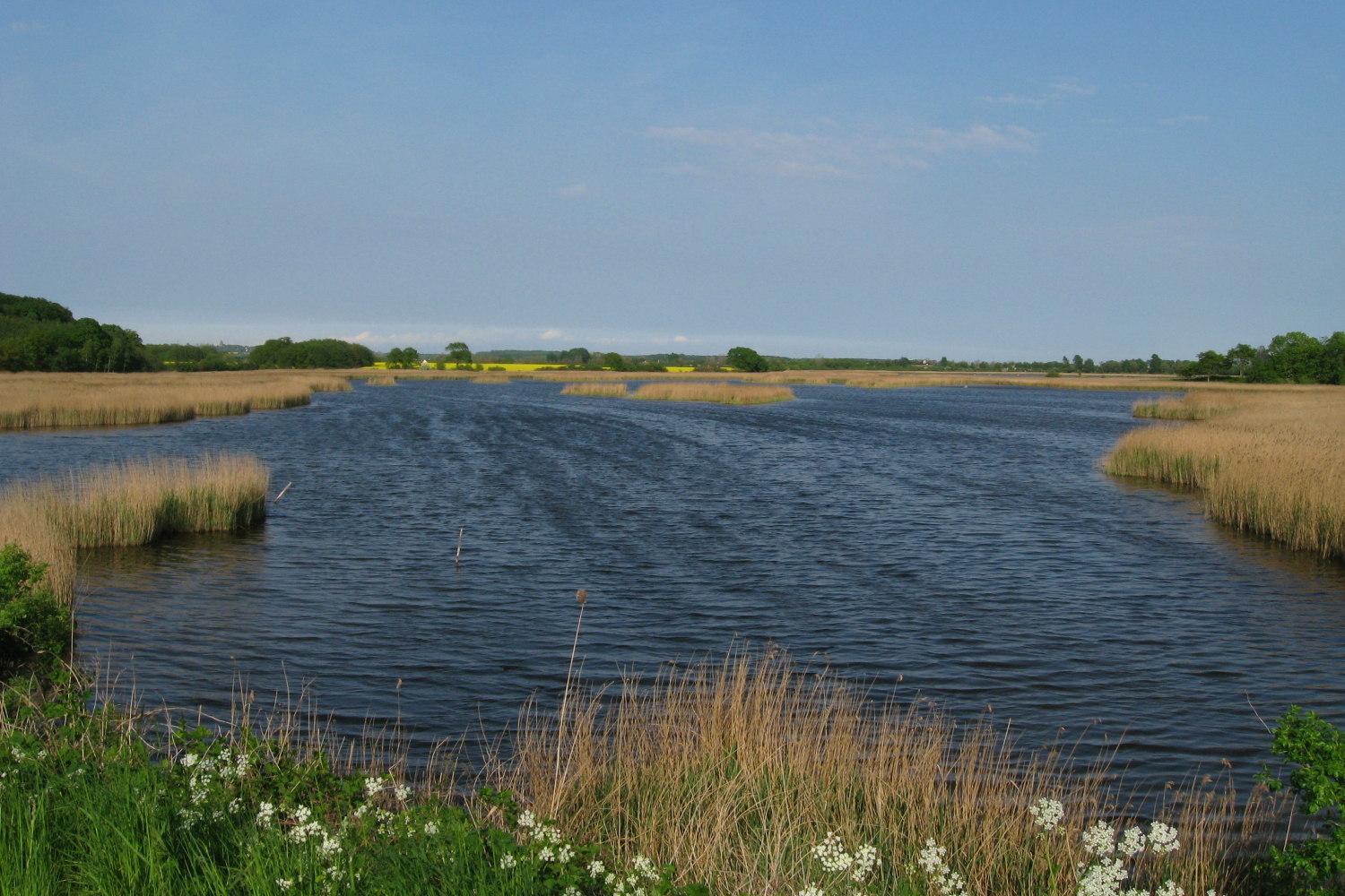 Tåsinge Vejle, seen from Bøgebjerg.